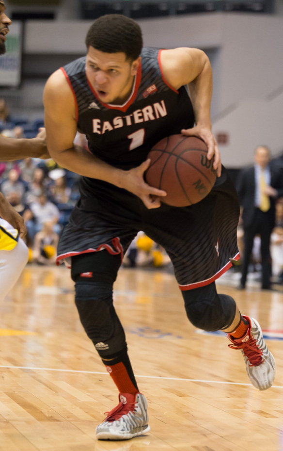 Eagle's guard and NBA prospect, Tyler Harvey, drives the lane with Lumberjack guard, Quinton Upshur, defending.